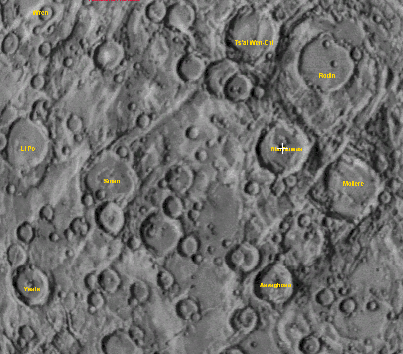 A screenshot of Abu Nuwas crater in NASA World Wind